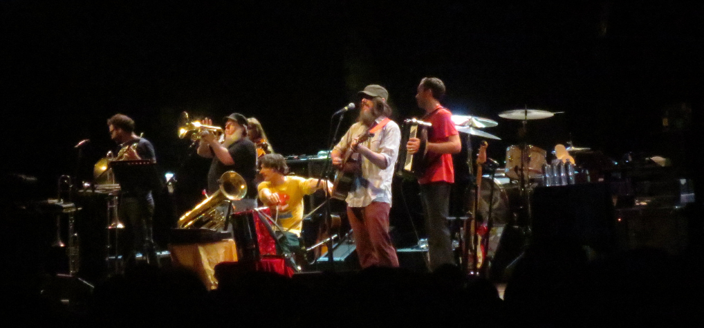 Neutral Milk Hotel live at Celebrate Brooklyn